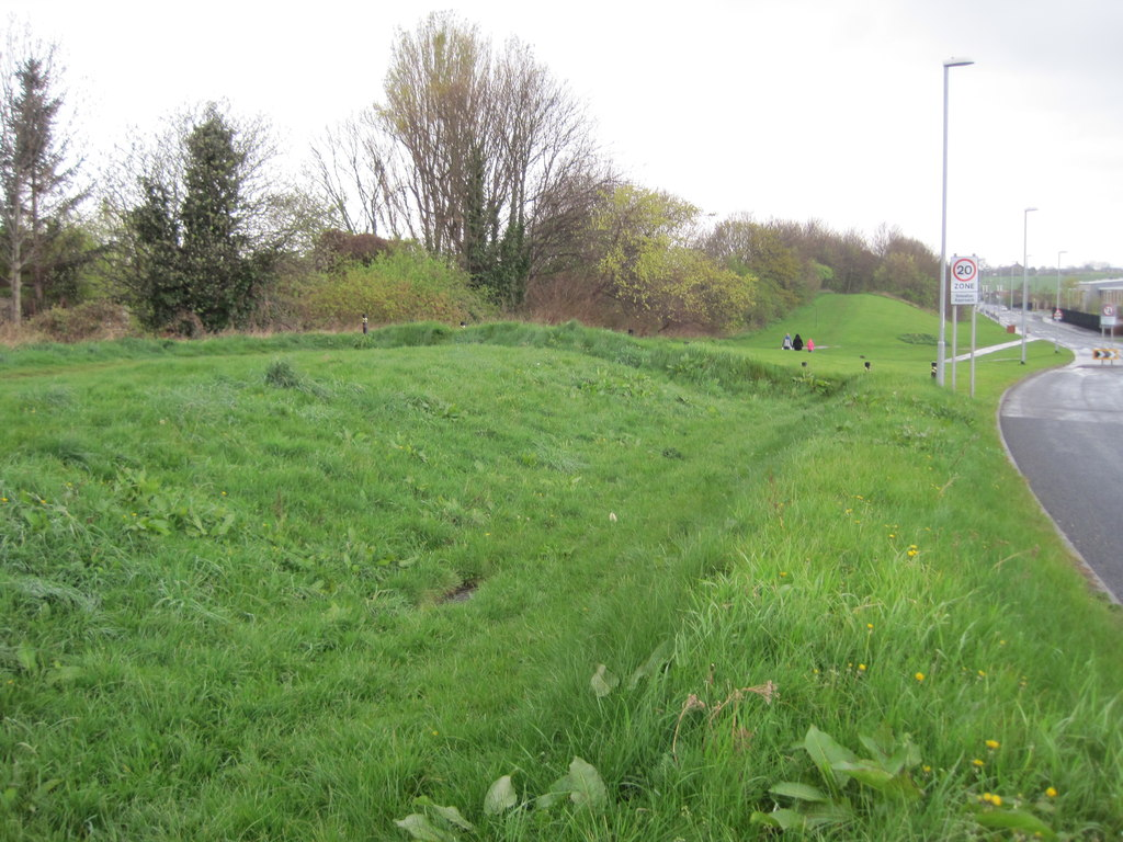 Pendas Way railway station (site), YorkshireOpened in 1939 by the London & North Eastern Railway on its line from Leeds to Wetherby, this station closed in 1964. View north towards Scholes and Wetherby.